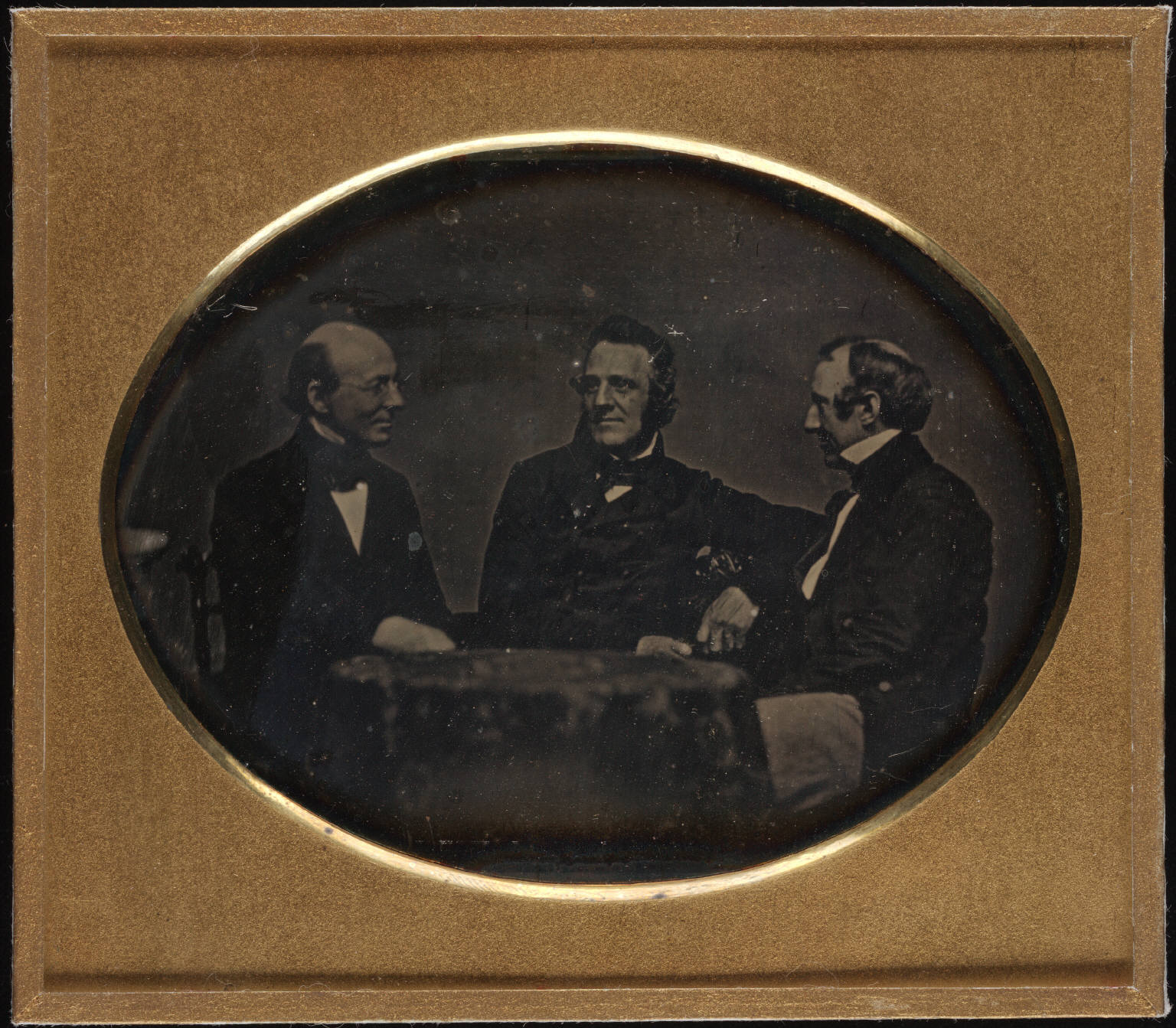 Author/Creator: Southworth and Hawes, Boston Date: ca. 1850-51 Part of: African-American Collection Physical Description: 1 photograph daguerreotype quarter plate Folder or box number: Folder 2 Genre/Form: Daguerreotypes Cite as: Yale Collection of American Literature, Beinecke Rare Book and Manuscript Library Repository: Beinecke Rare Book & Manuscript Library, Yale University Bibliographic Record Number: 2002064 Call Number: Uncat JWJ MS 59 View our Record: Permalink